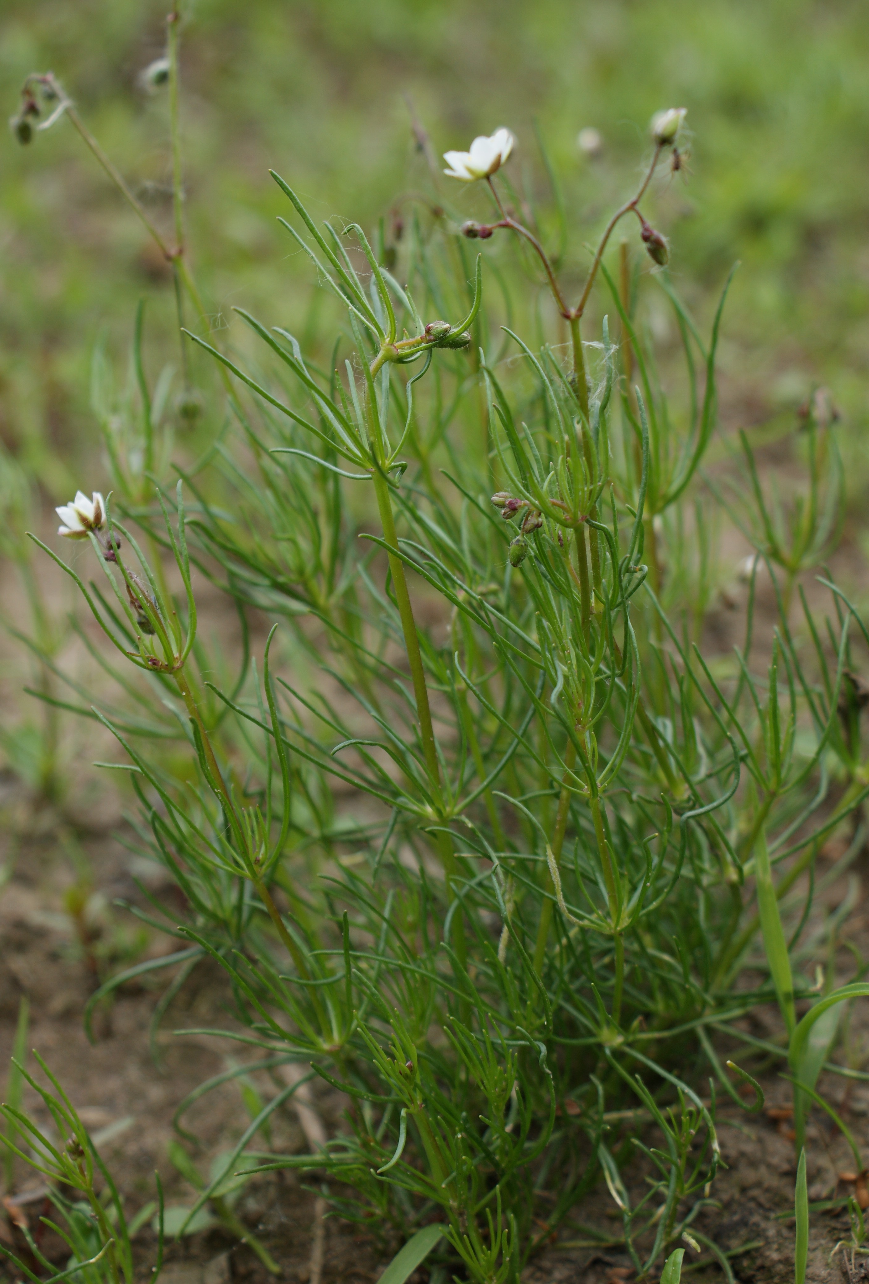 Spergula arvensis, field near Stepnica (NW Poland)